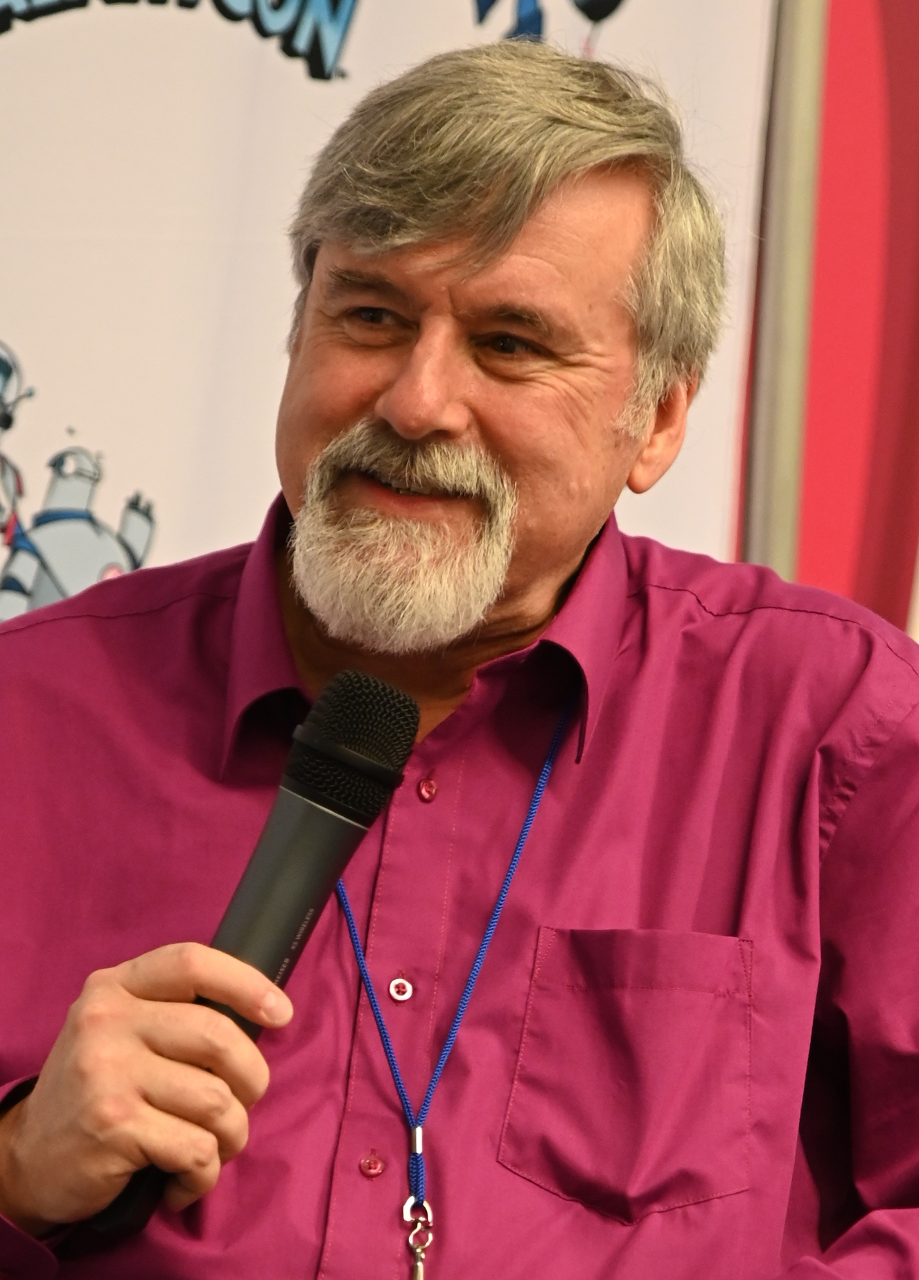 Bob West at GalaxyCon Raleigh in 2019